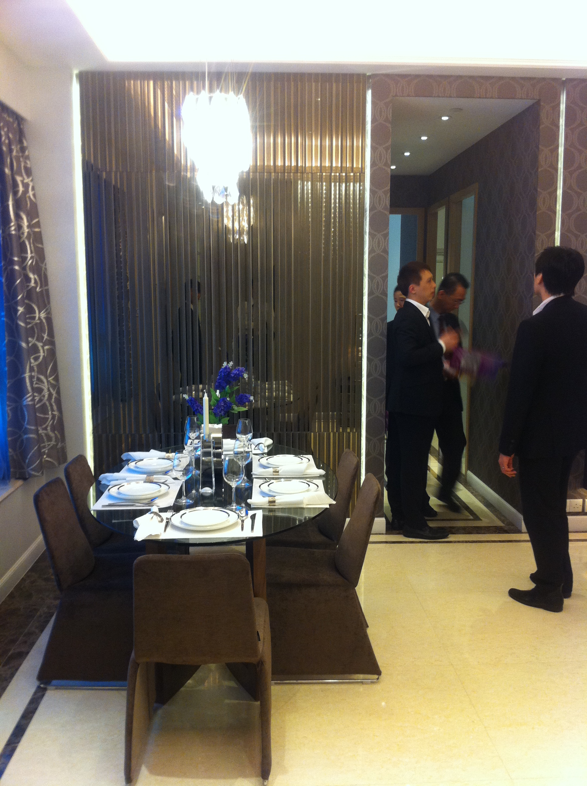 香港島英皇集團zh:樓花示位